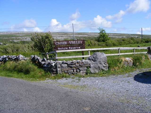 Caher Valley Nature Reserve Not open to the public. The gate has a chain and 4 rusty padlocks.